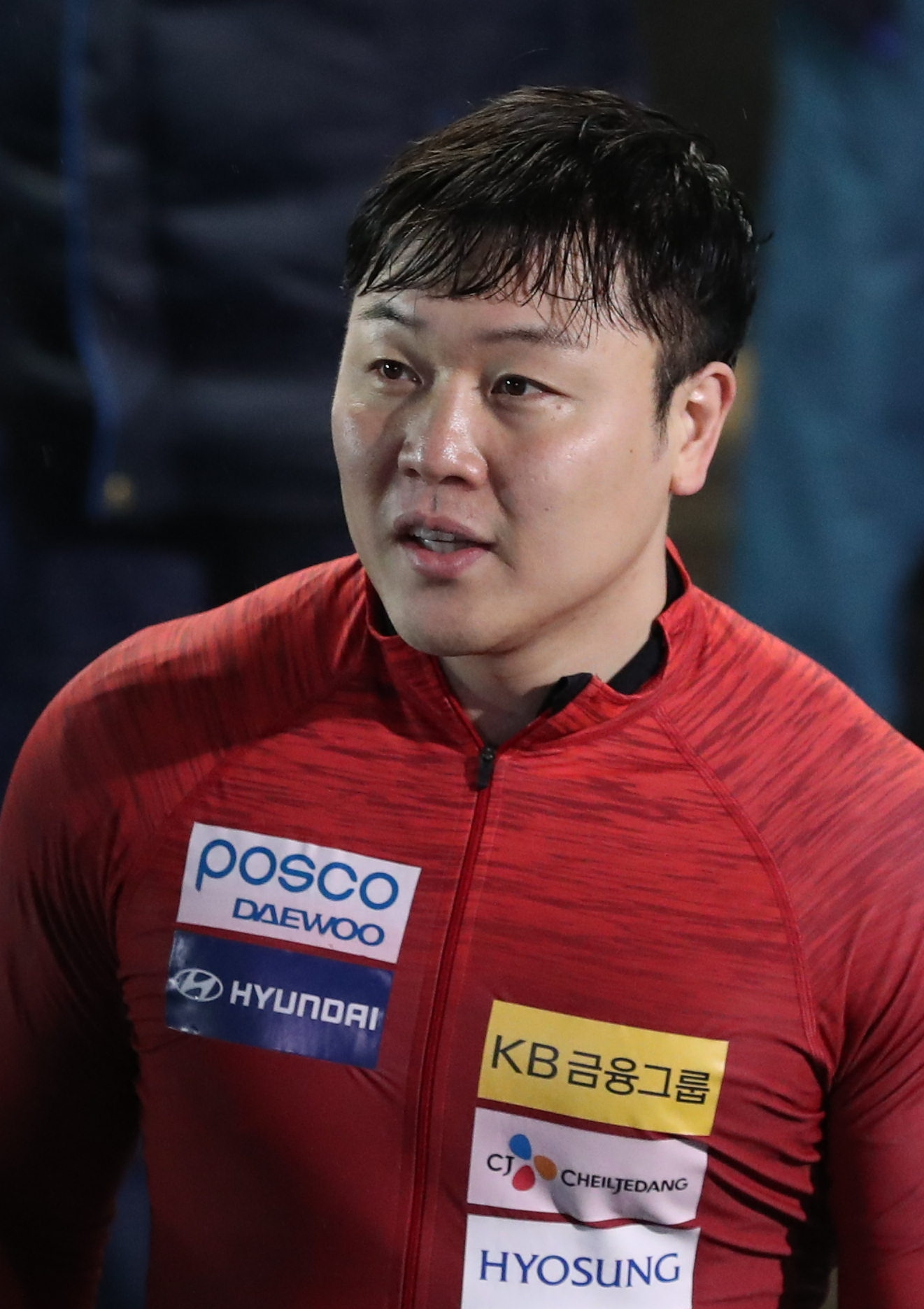 2-man Bobsleigh Men's World Cup race at the 2018/19 Bobsleigh World Cup in Altenberg